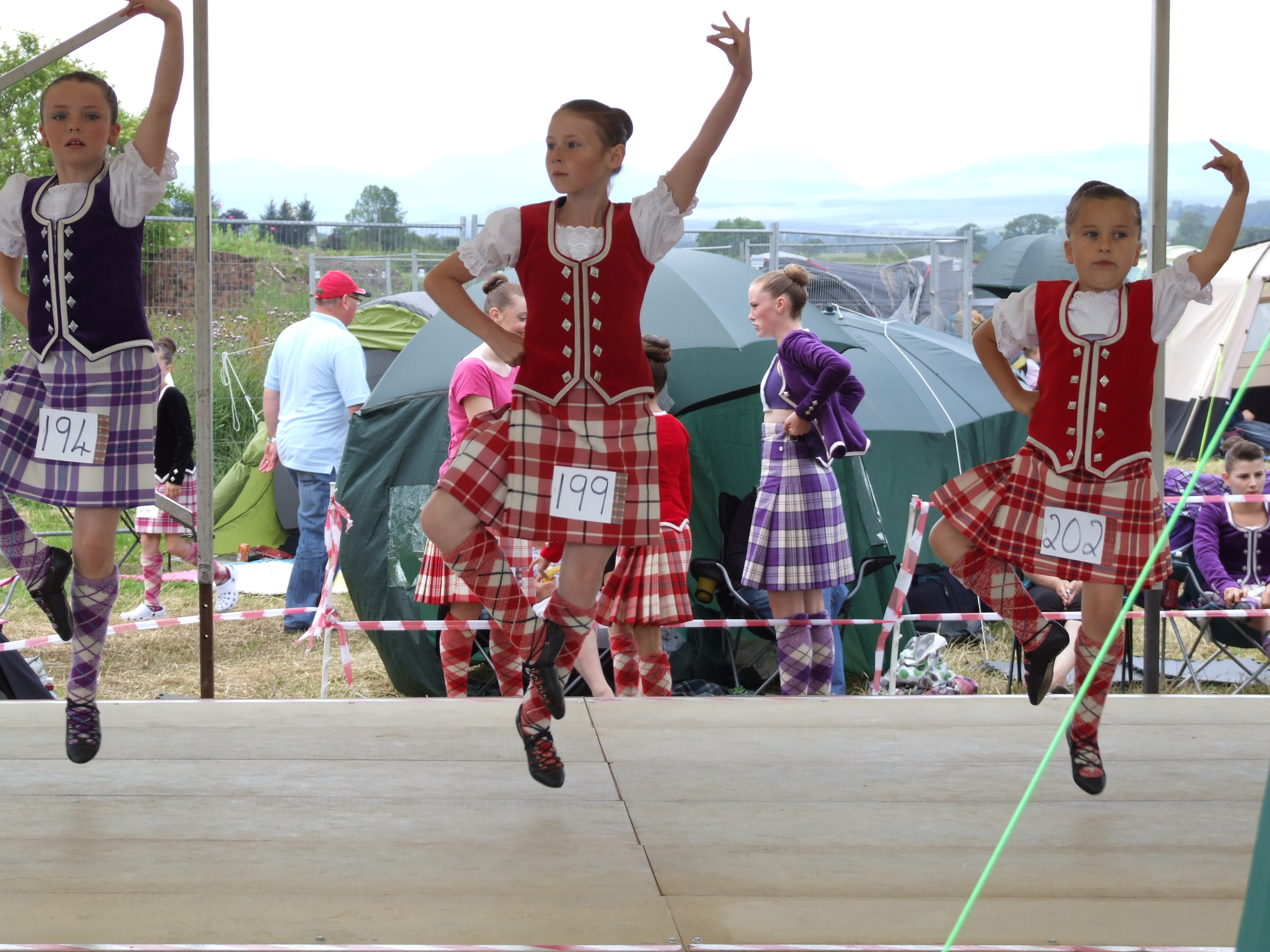 Girls dancing at the Highland Games in Sychrov castle, Czech republic in traditional plaid highland dresses